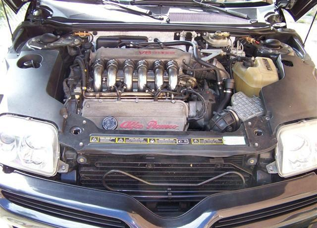 Busso V6 Turbo 2.0